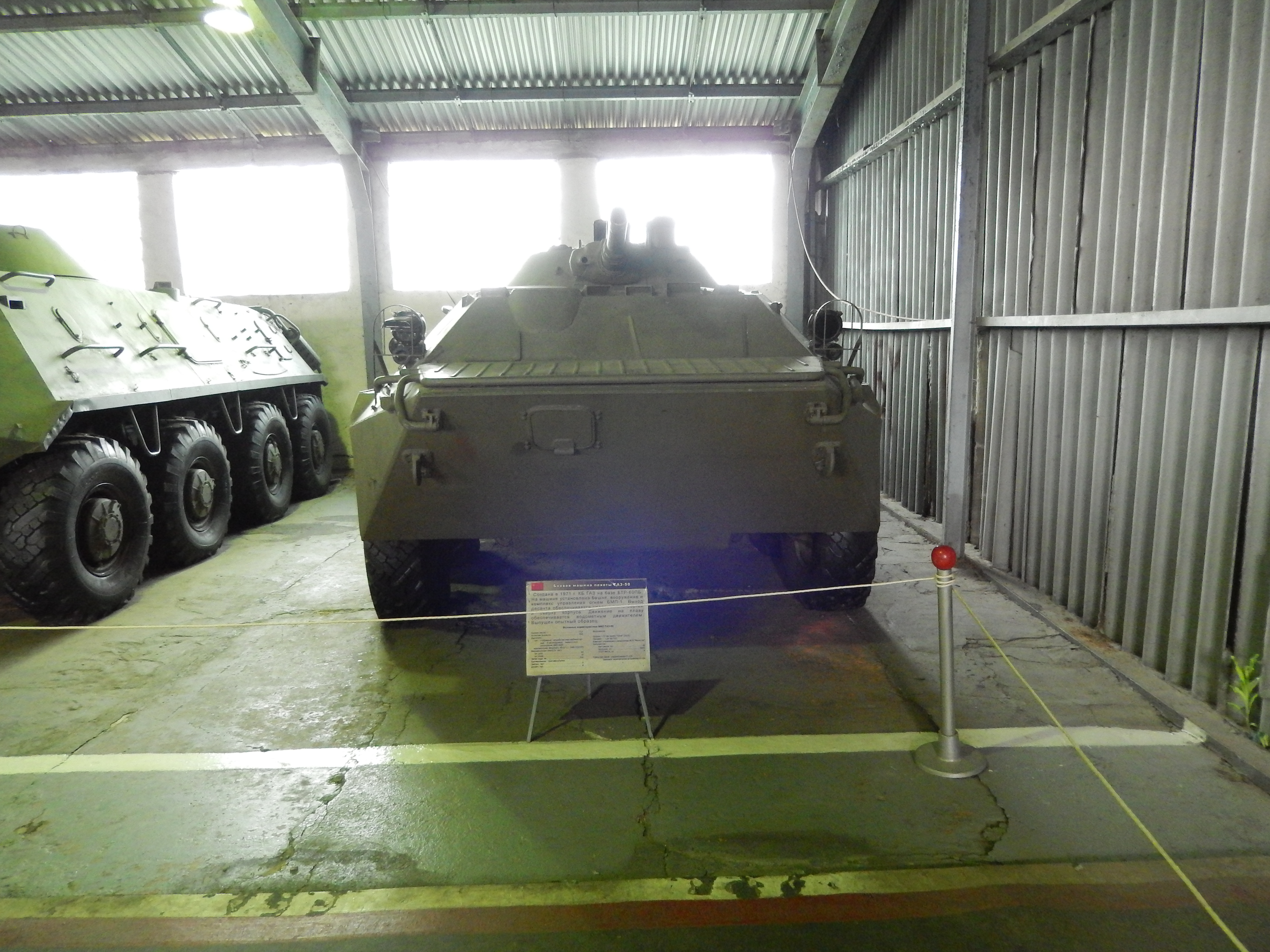 Experimental infantry fighting vehicle GAZ-50 in the tank museum in Kubinka